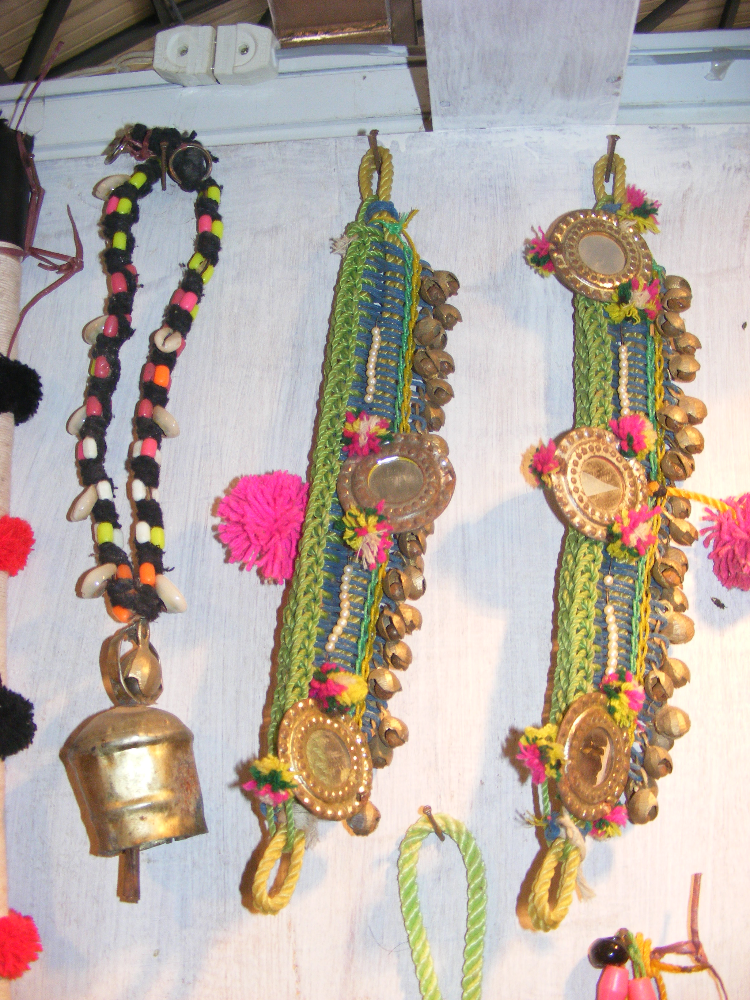 Ornaments which are used in India to decorate livestocks of cattle